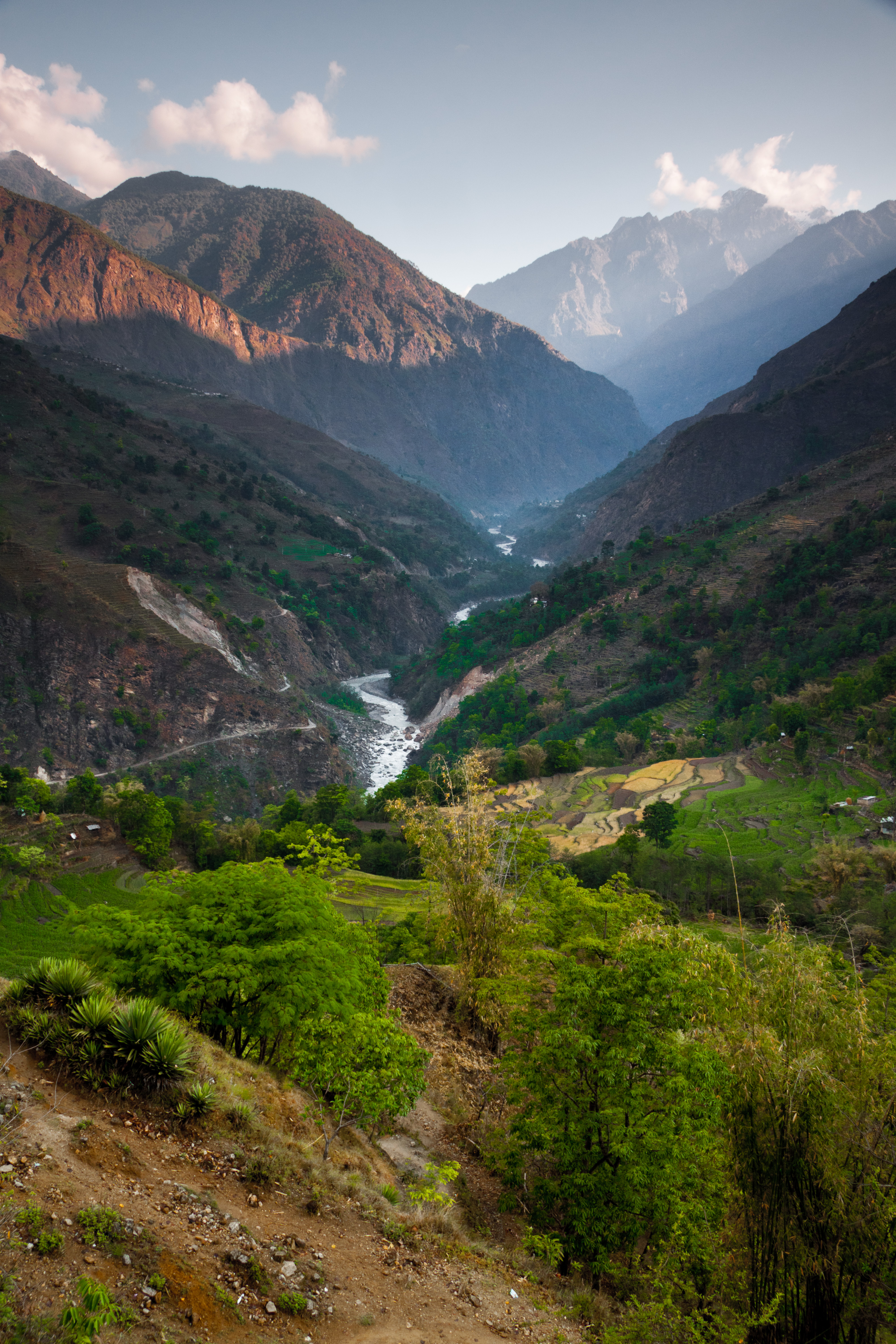 Marshyangdi river near Bahundanda, Lamjung district, Nepal